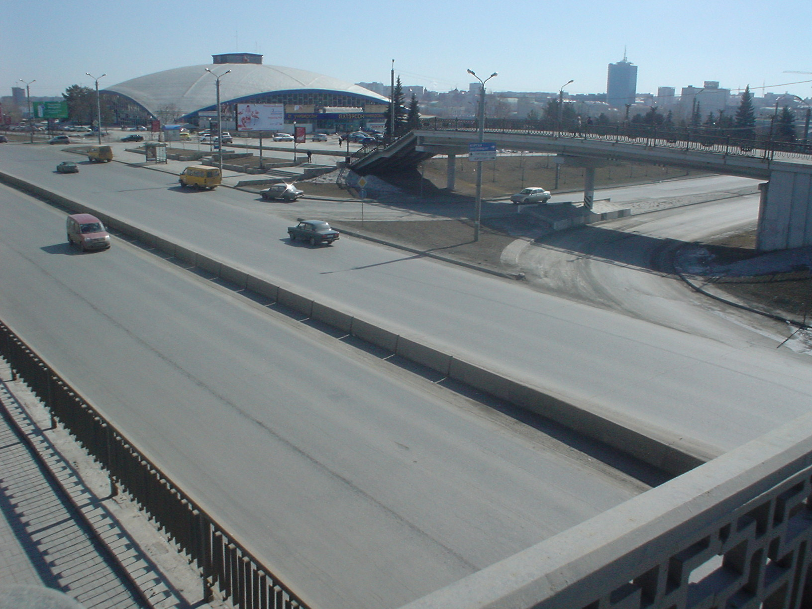 Trade Center, Chelyabinsk, Russia